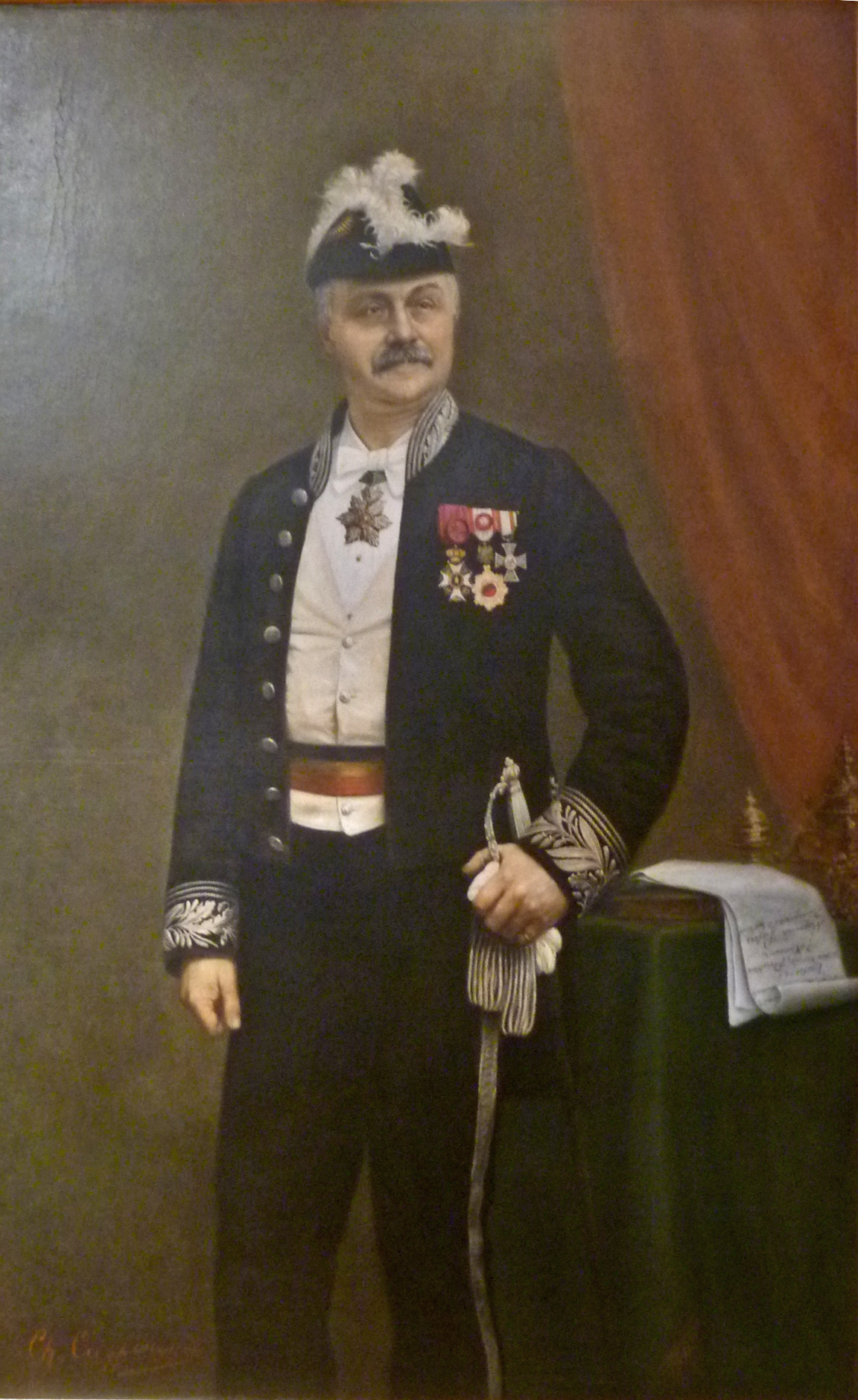 Alphonse Pieters, mayor (1892-1912) of Ostend, Belgium; painting by anonymous artist; city museum, Ostend